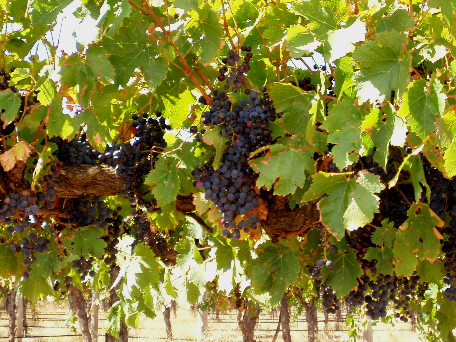 Red wine grapes growing the Australian wine region of the Barossa Valley.